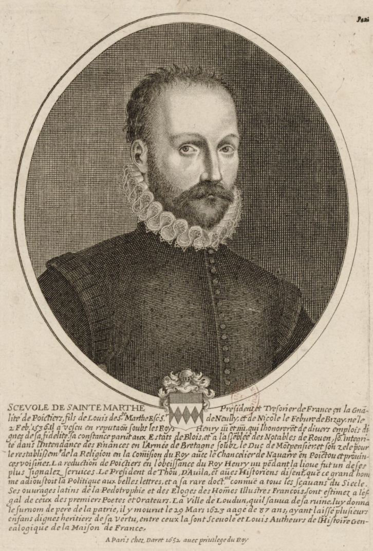 Engraving of Scévole de Sainte-Marthe